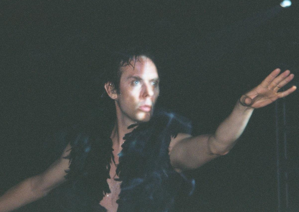 Peter Murphy performing at #'s in Houston, Texas. Taken on May 30th 2002 during the Dust tour.